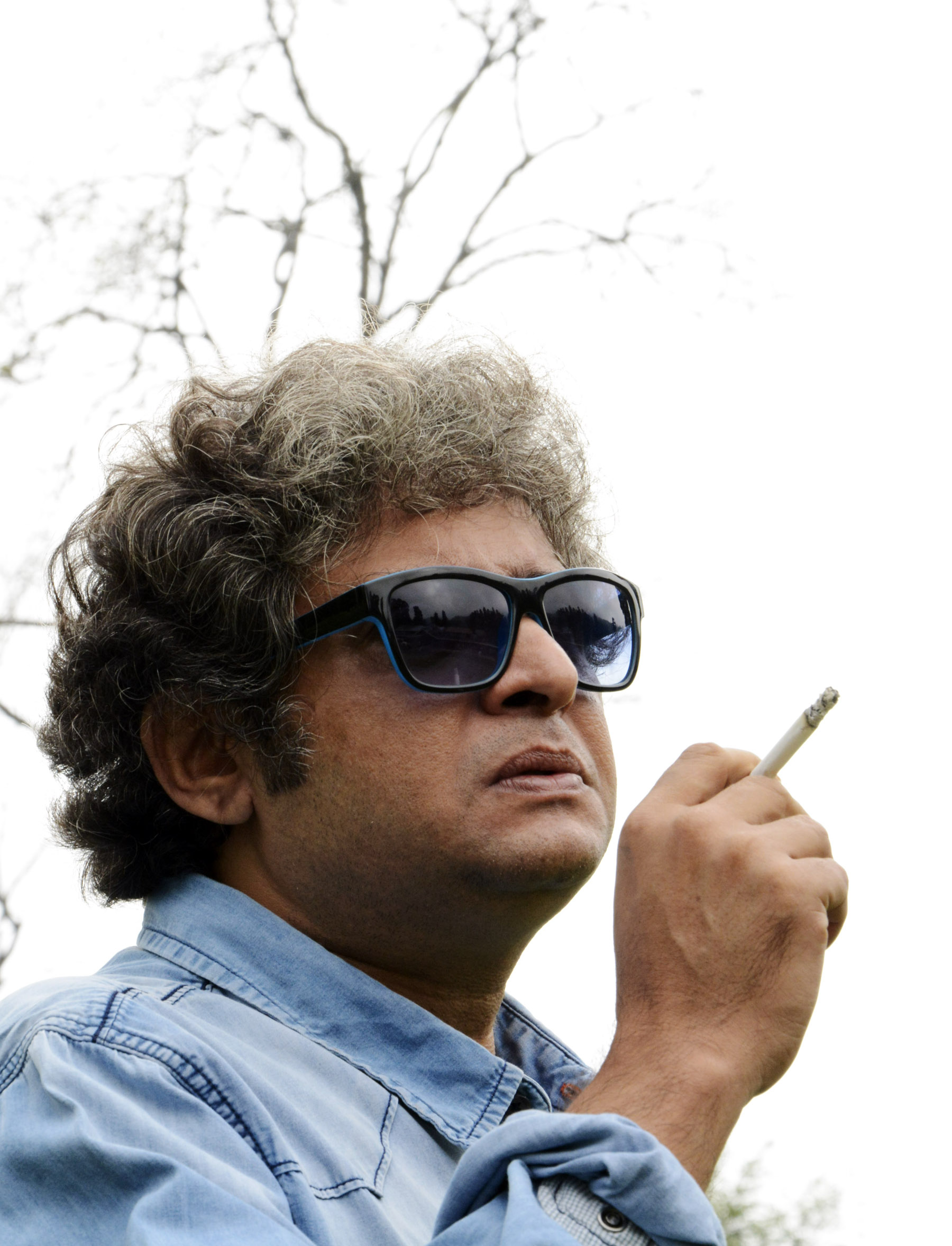 PICTURE OF DEBESH CHATTOPDHYAY